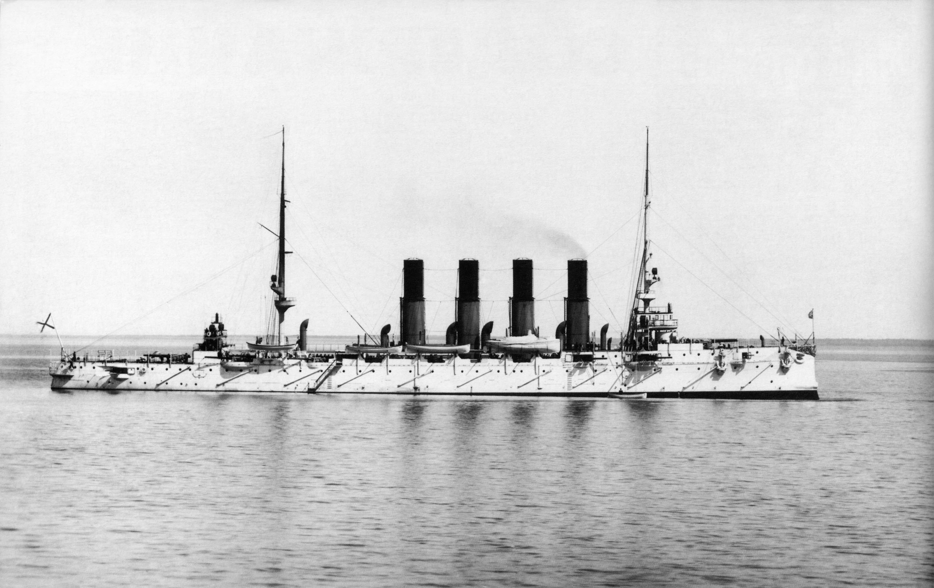 The Imperial Russian protected cruiser Varyag, June 1901.